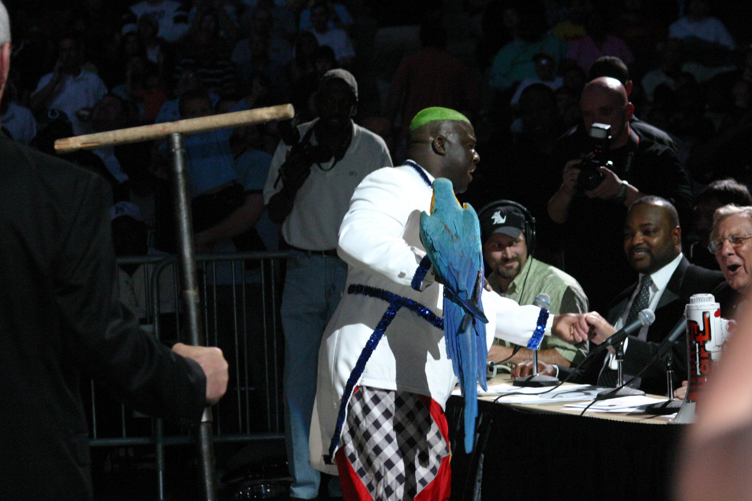 koko b. ware making a wrestling appearance